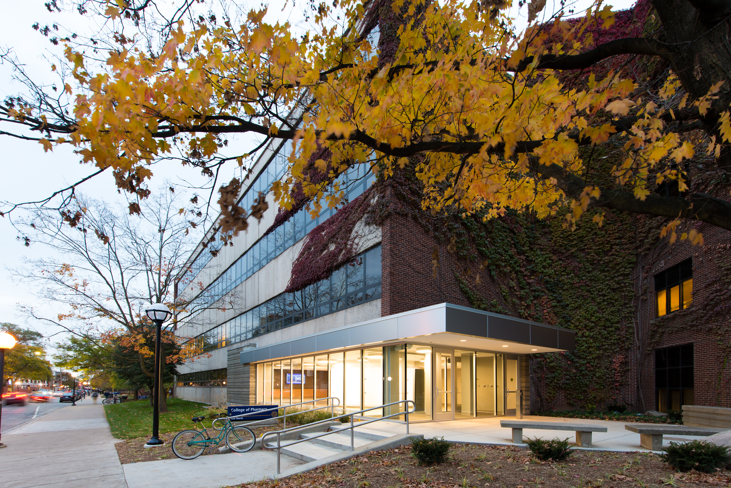 Exterior shot of the University of Michigan College of Pharmacy